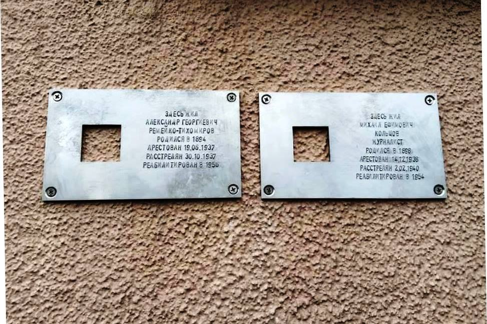 The Last Address Sign is a commemorative plaque that is installed on the last known residential address of victims of the Soviet Union's Communist regime. The memorial sign is a small, 11x19 cm stainless steel plaque that contains information about the repressed person. This information usually contains his or her name, profession, date of birth, date of arrest, date and reason of death (was shot or died in a Soviet concentration camp), and date of rehabilitation ('for lack of corpus delicti').